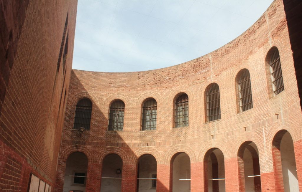 Mataró. Antigua prisión. Parte semicircular